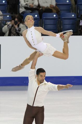 2010 European Figure Skating Championships - Aliona Savchenko and Robin Szolkowy